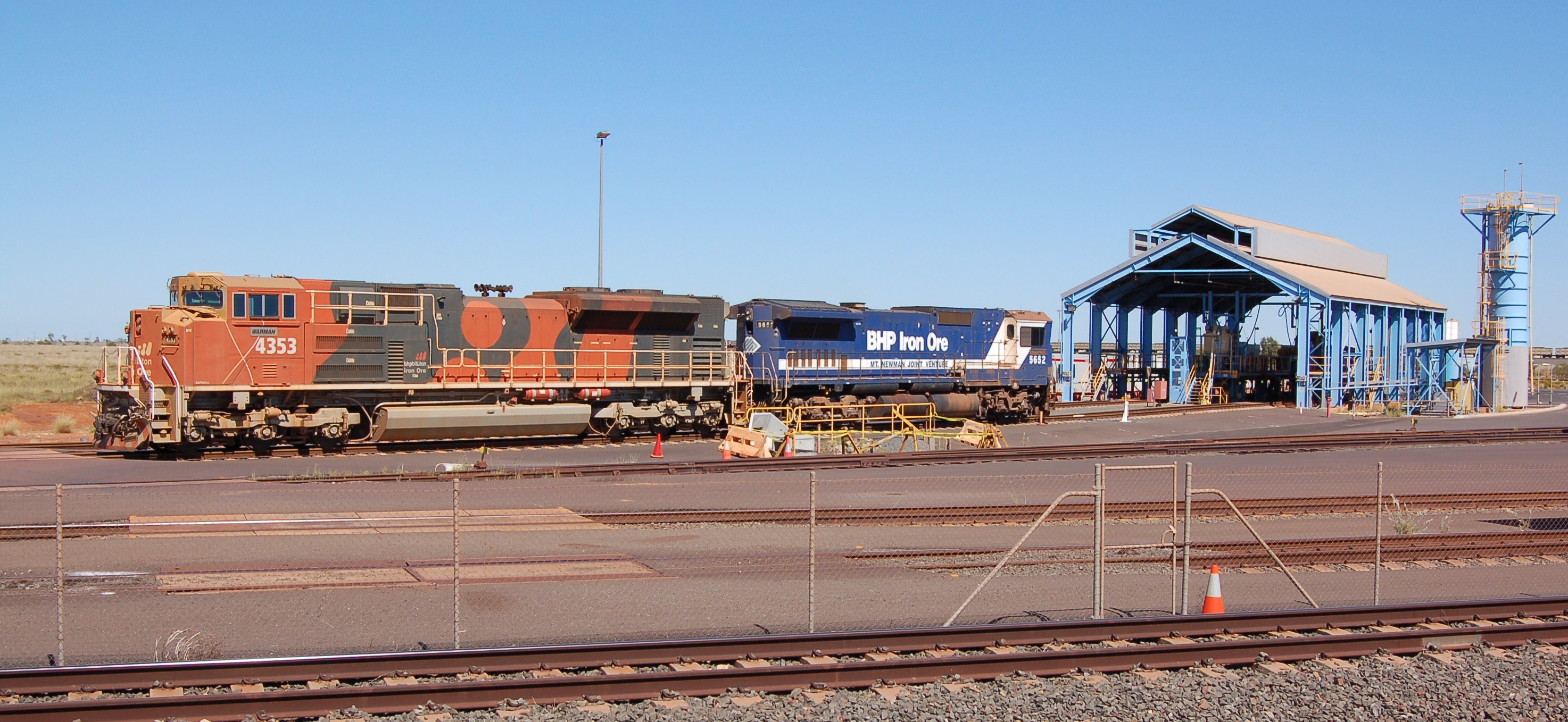 BHP Billiton Iron Ore EMD SD70ACe no. 4353 Warman (left) and GE CM40-8M no. 5652 Villaneuva (right) at the Boodarie depot on the Goldsworthy railway, near Port Hedland, Western Australia. A Fortescue Metals Group train on the Fortescue railway is just visible in the background at right.